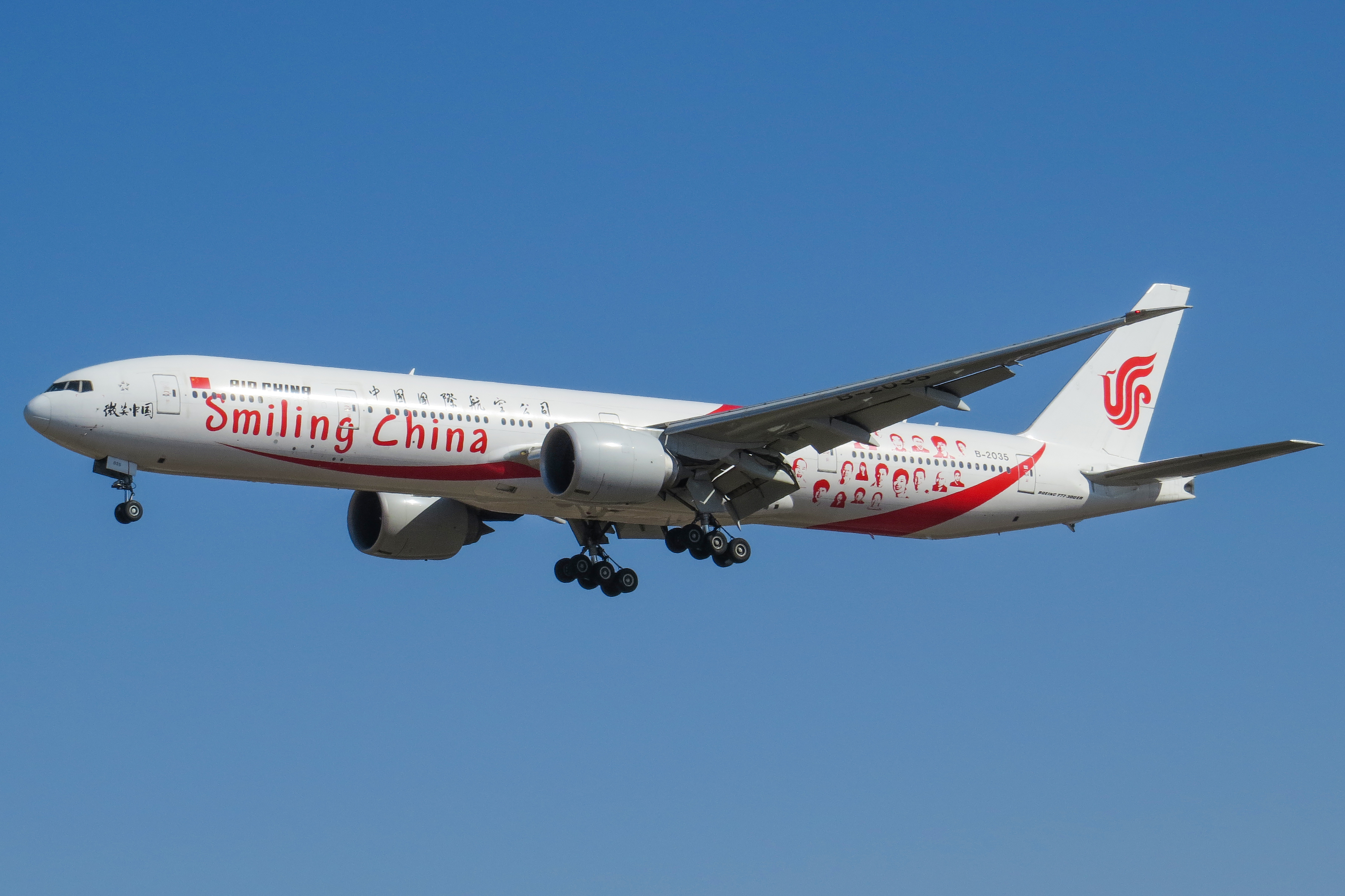 Air China 1502 from Shanghai Hongqiao. Taken from the east parking lot.